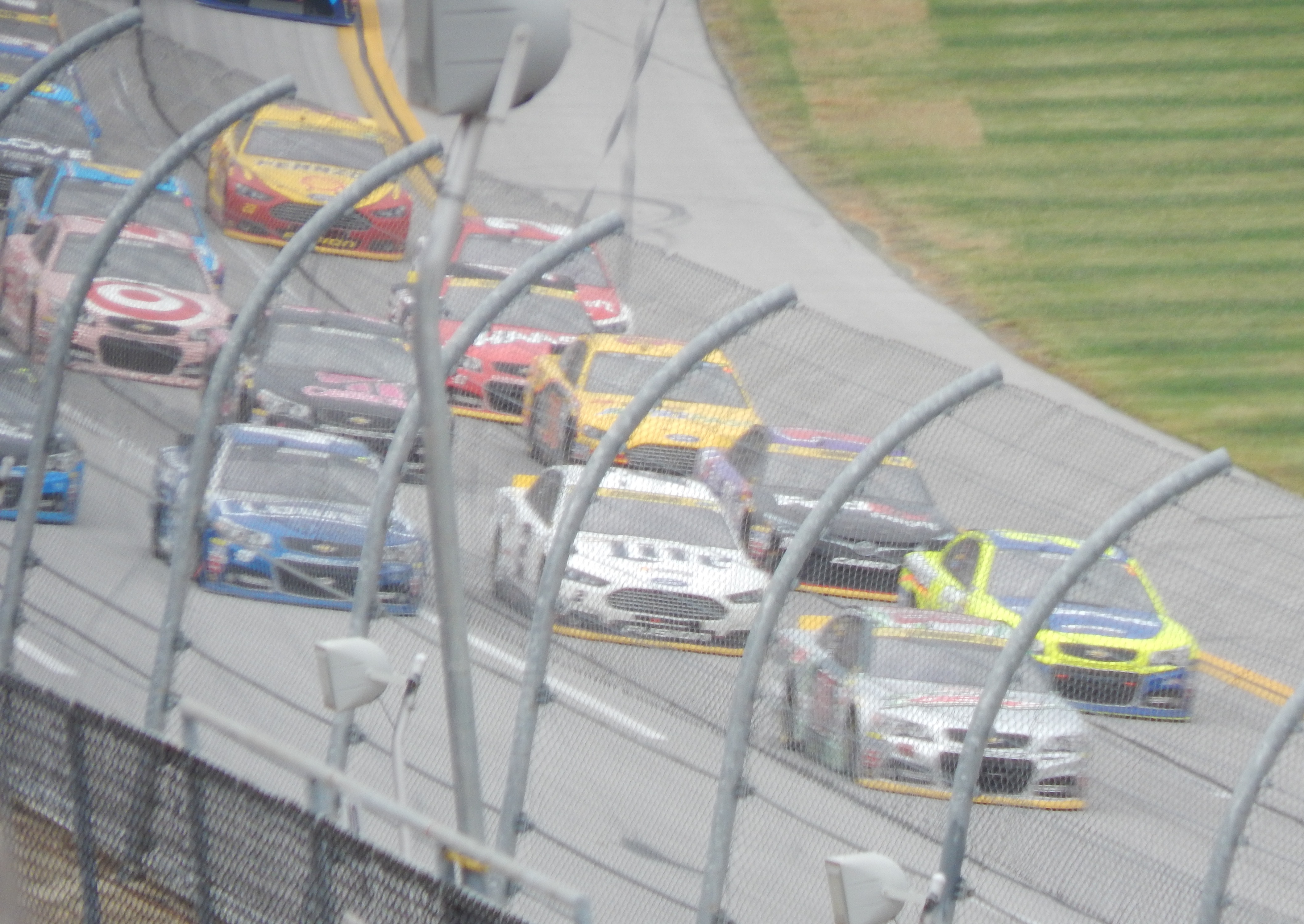 Dale Earnhardt, Jr. leads the way after 70 laps at Talladega.